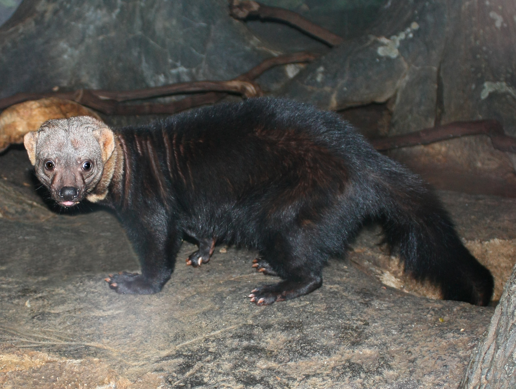 Tayra - taken at the Cincinnati Zoo & Botanical Garden by Greg Hume